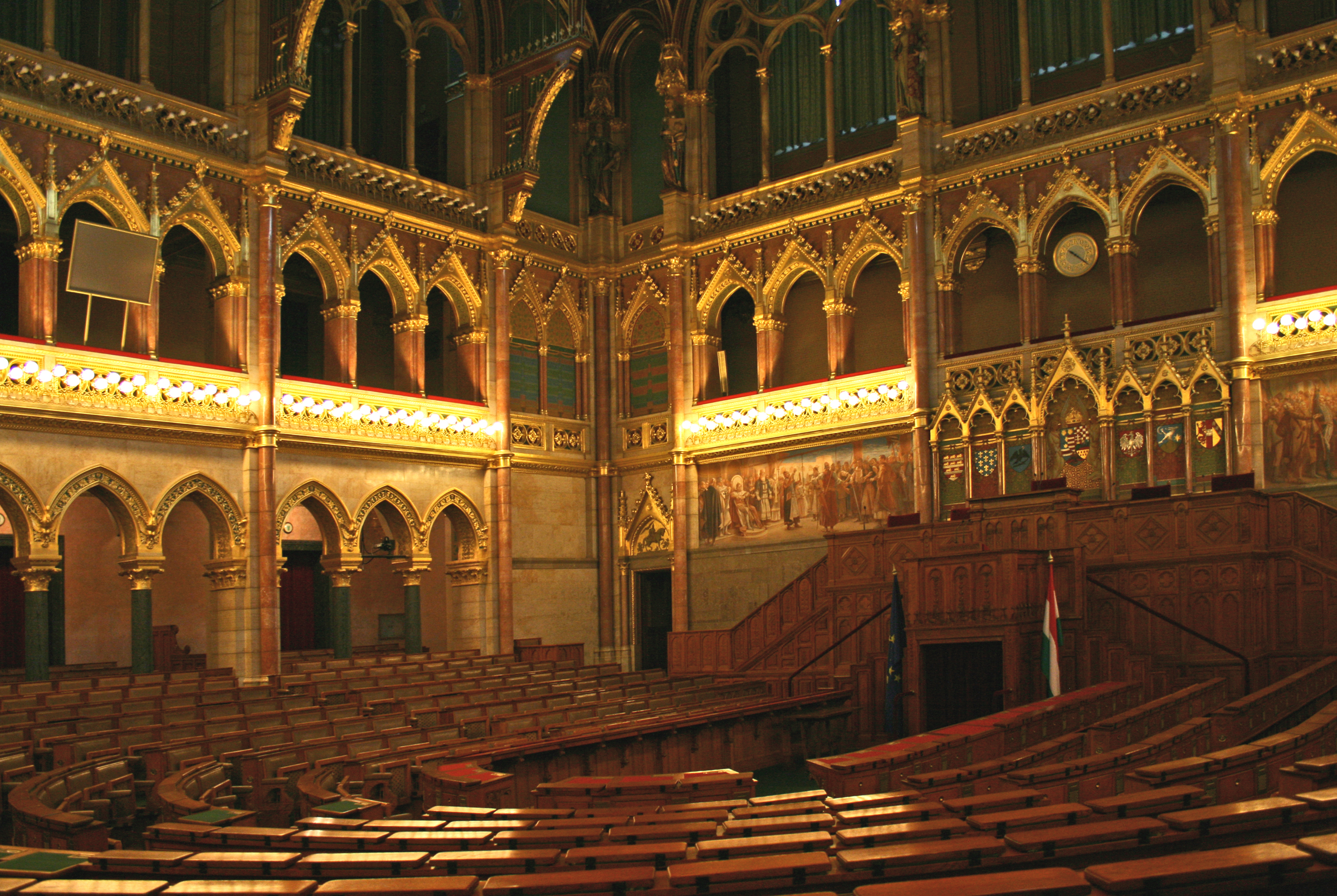 Interior of the House of Magnates in the Parliament of Hungary building, Budapest, Hungary